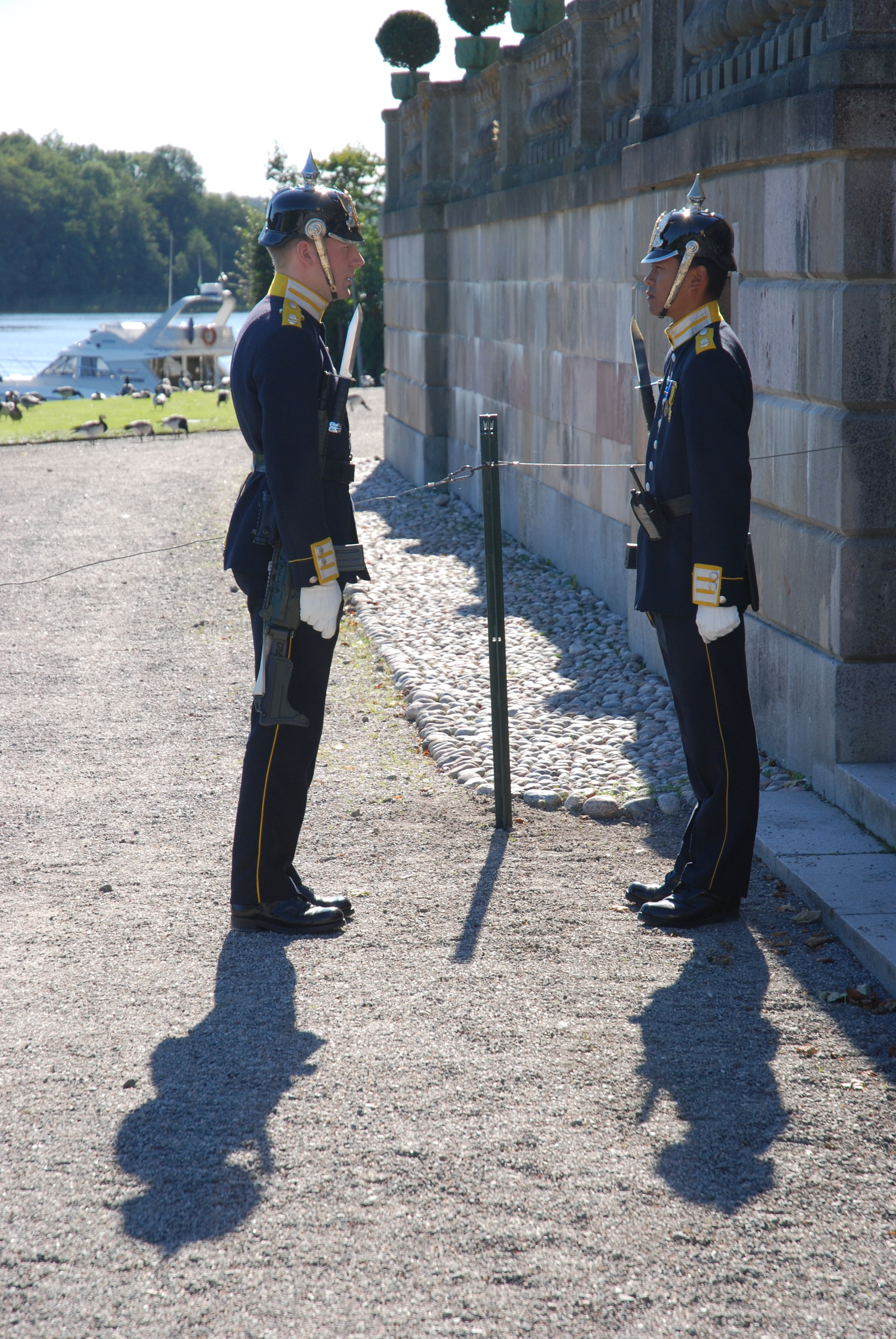 Soldiers guarding residence of the King of Sweden at Drottningholm Palace